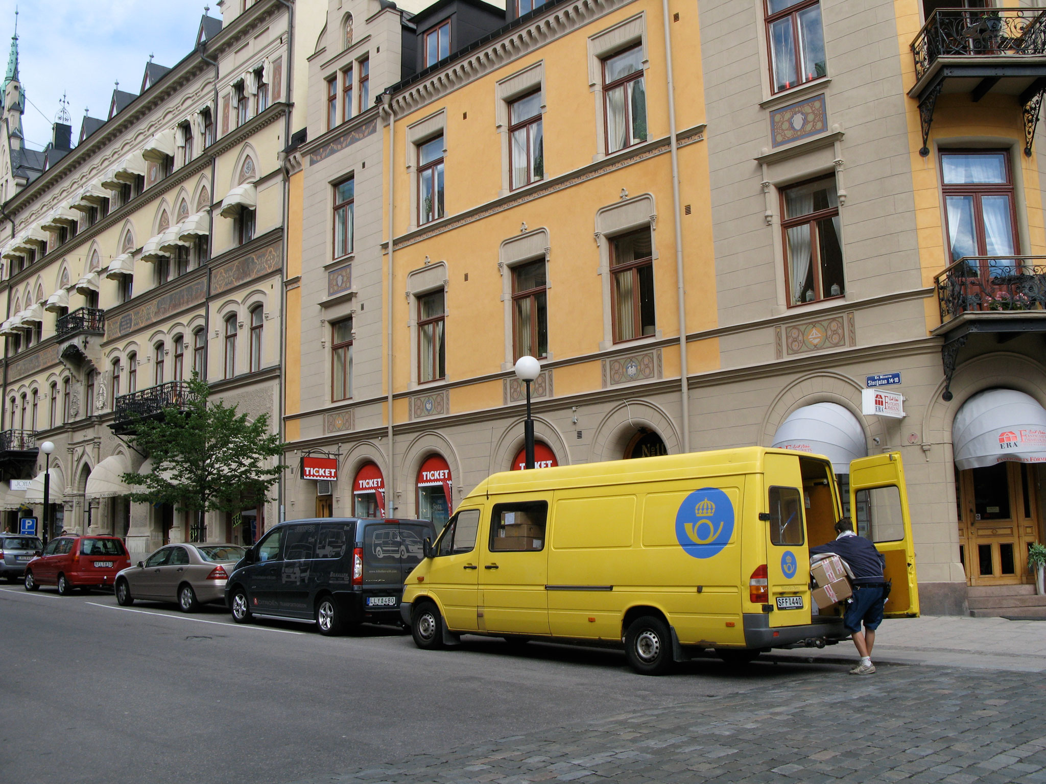 Mail van in Storgatan (high street), Sundsvall (Sweden)